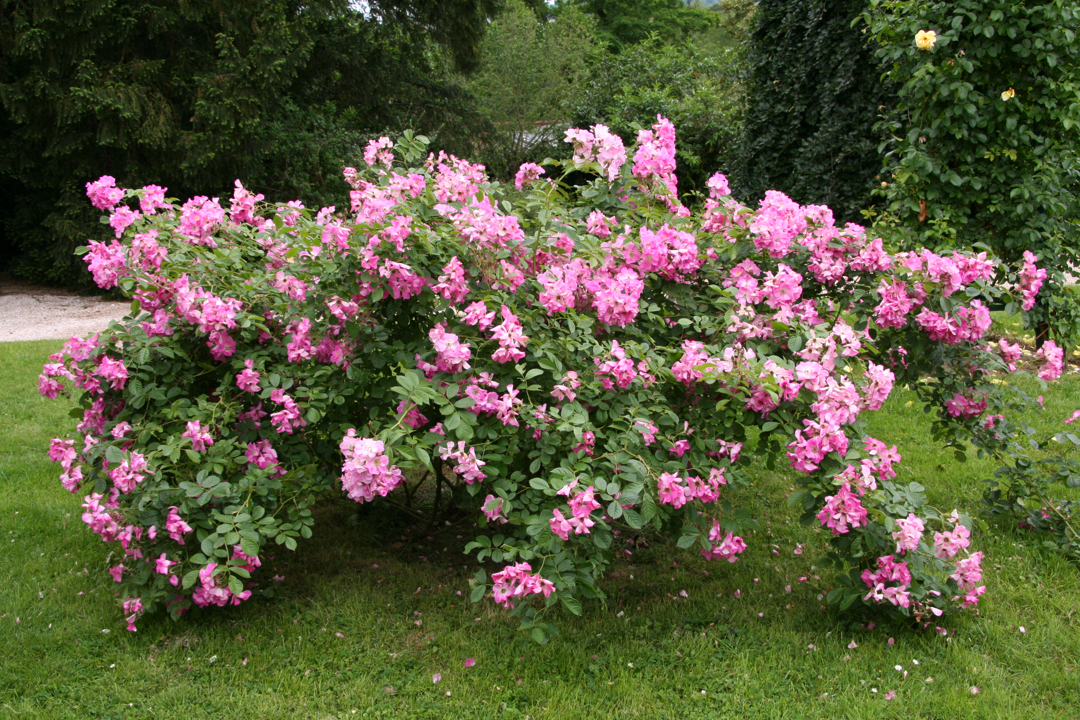 Miss Helyett rose - Bagatelle Rose Garden (Paris, France).